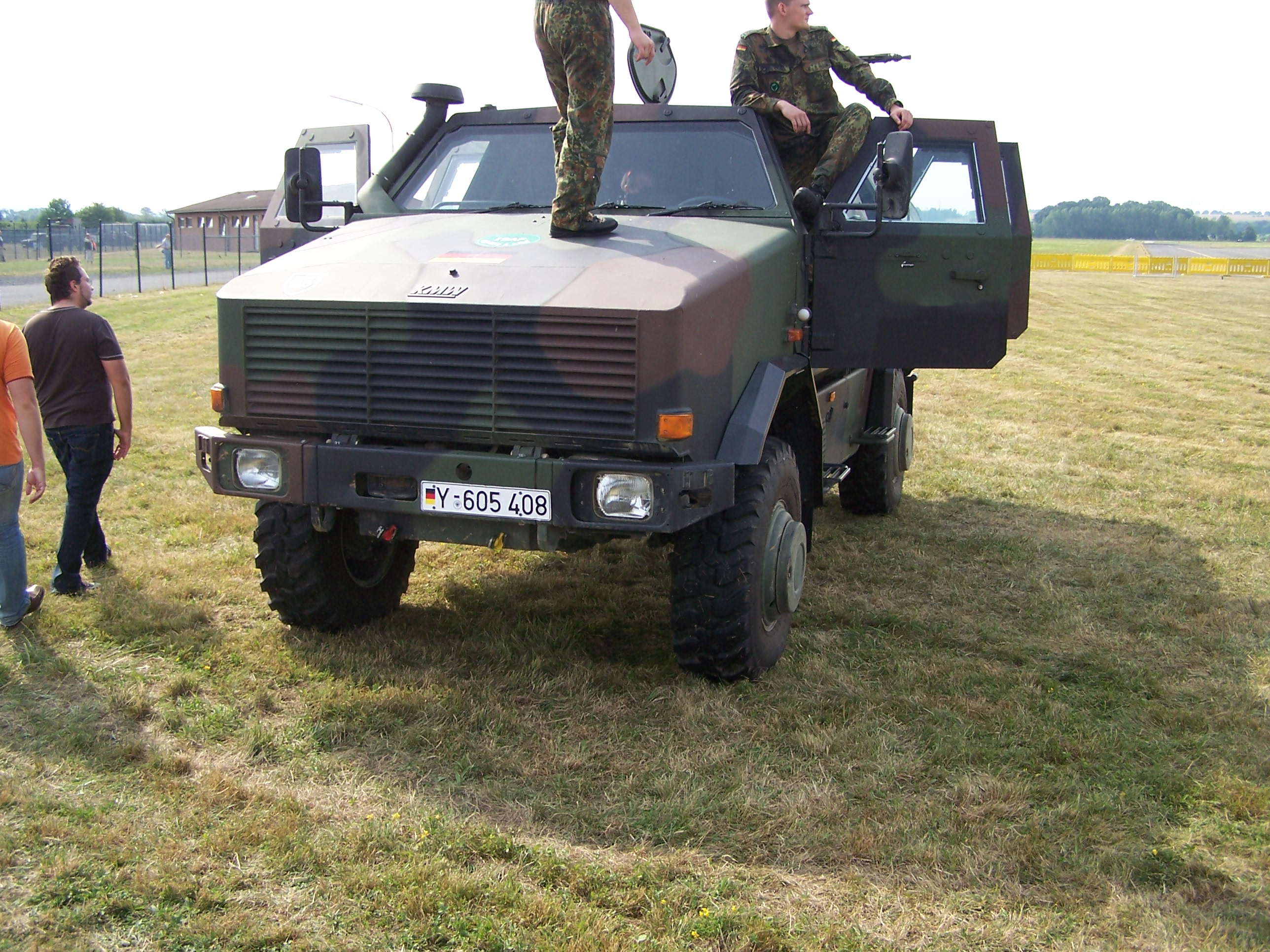 An ATF Dingo of the German Army on static display